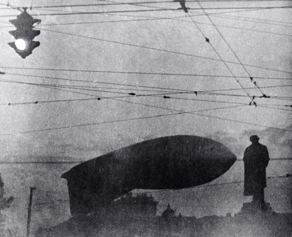 “Barrage balloon above the Pushkin monument”. Barrage balloon hangs above the Alexander Pushkin monument during WWII.